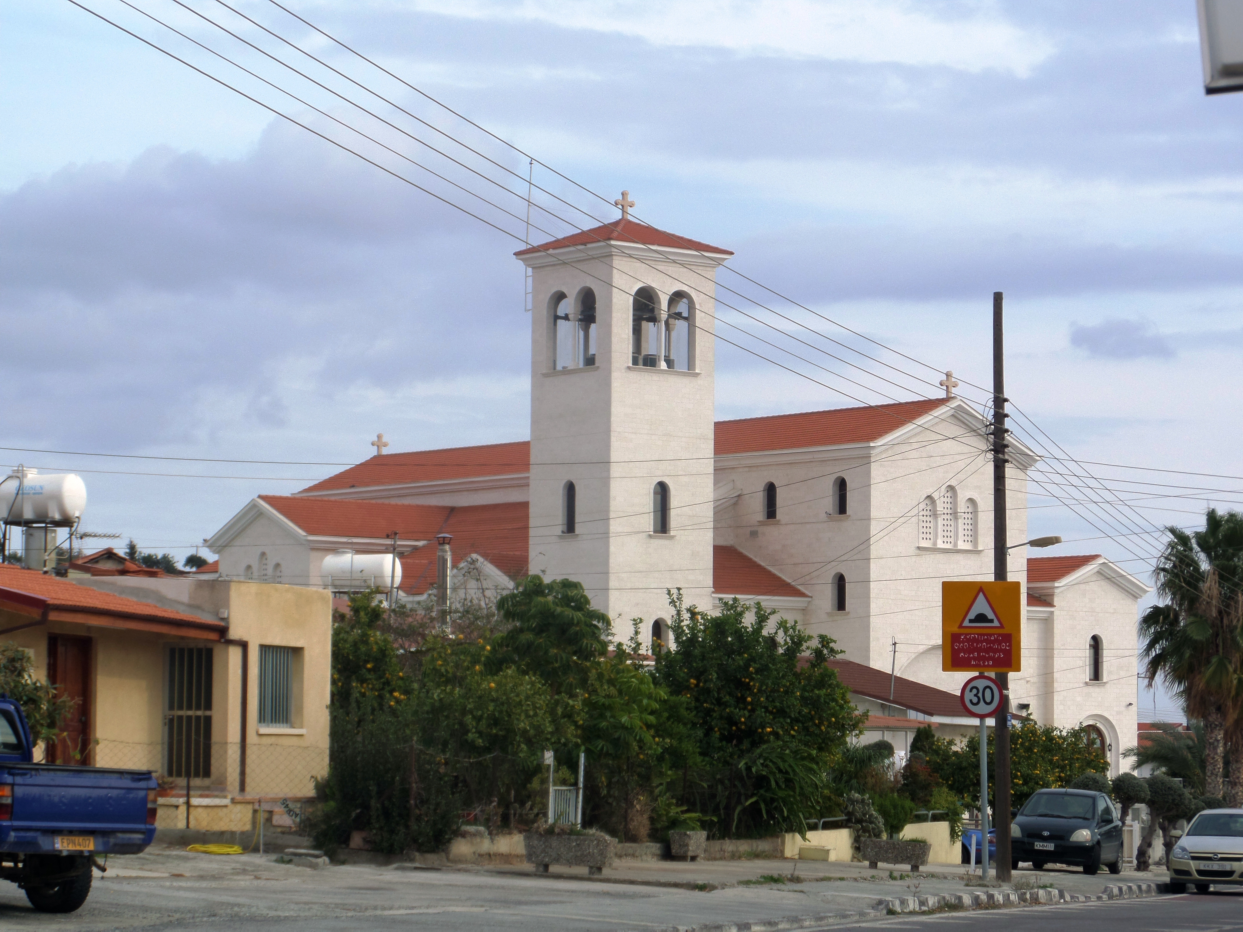 Timios Stavros church at Pano Polemidhia